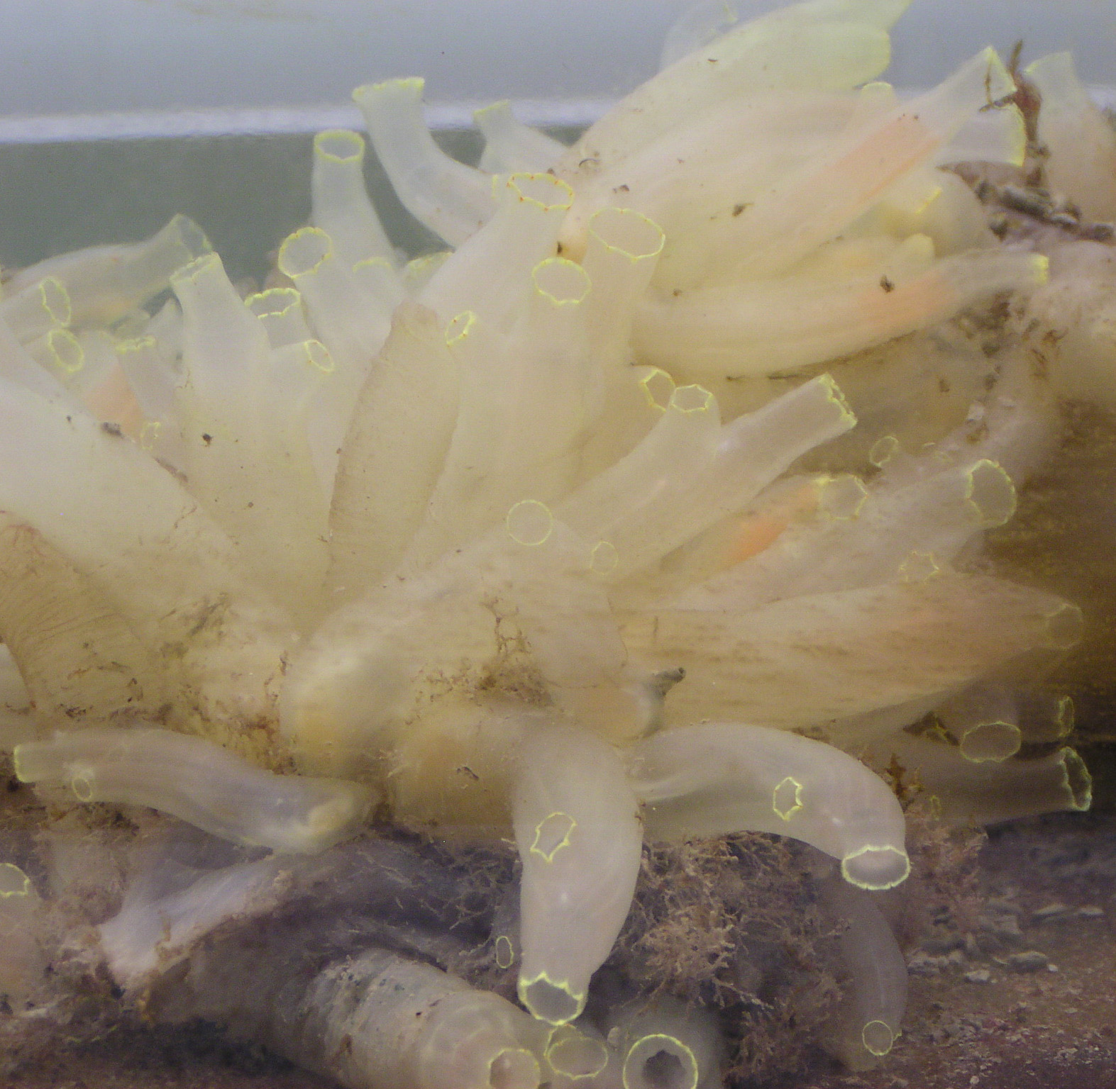 Ciona intestinalis adult